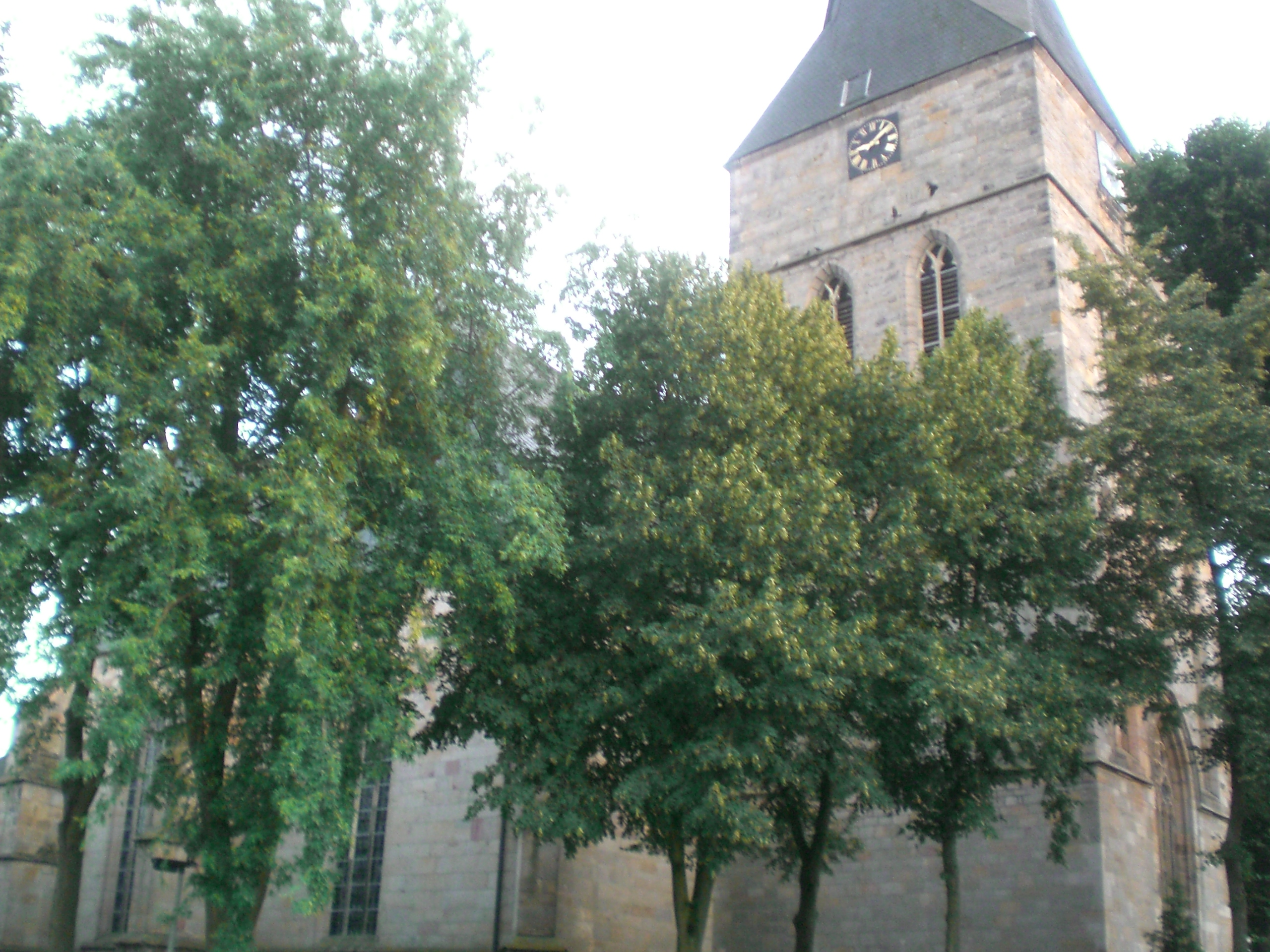 Lutheran church in Lengerich, Northrhine-Westphalia, Germany